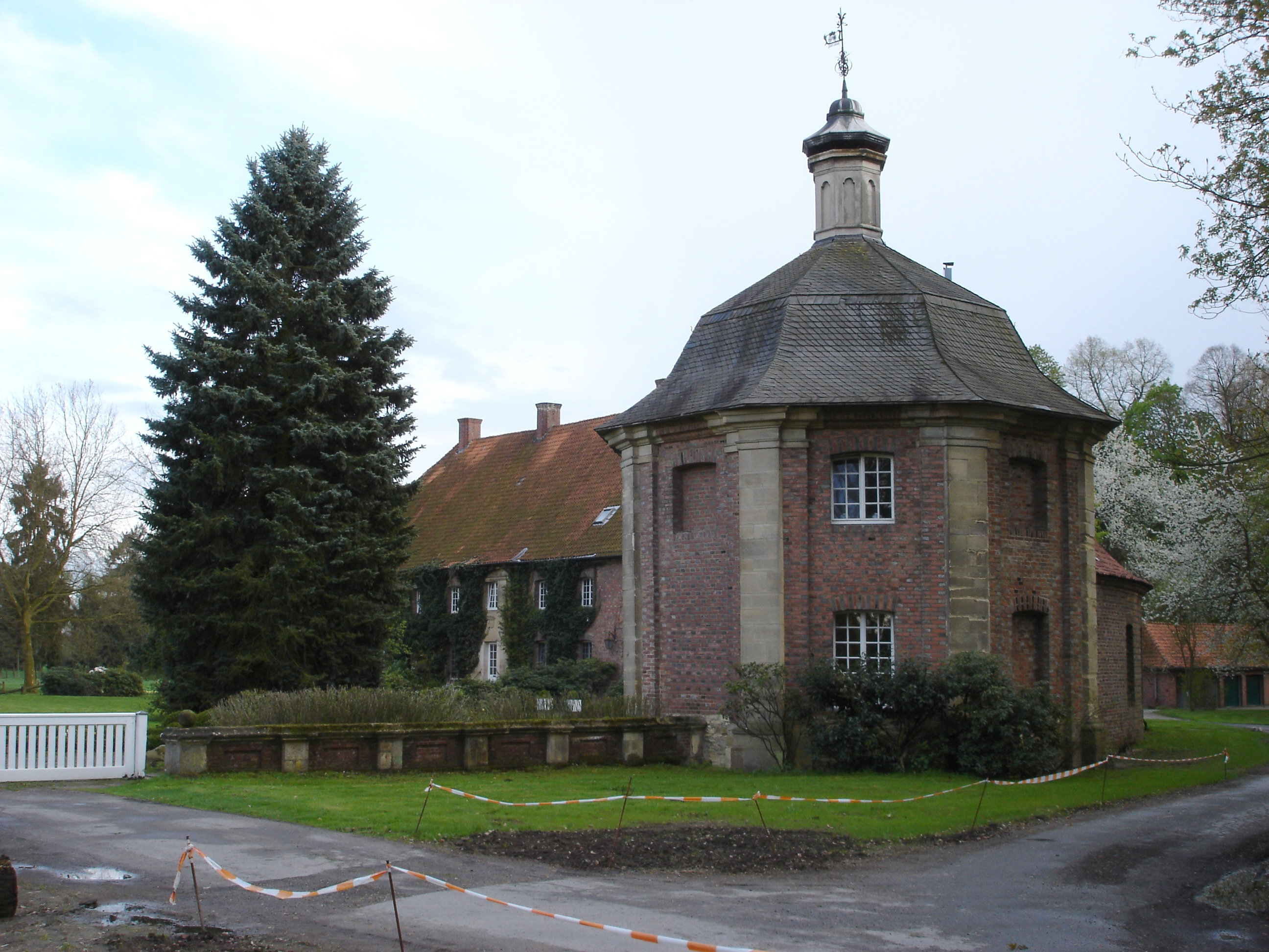 Main builing of the "Haus Luetkenbeck" in Münster, Westphalia, Germany